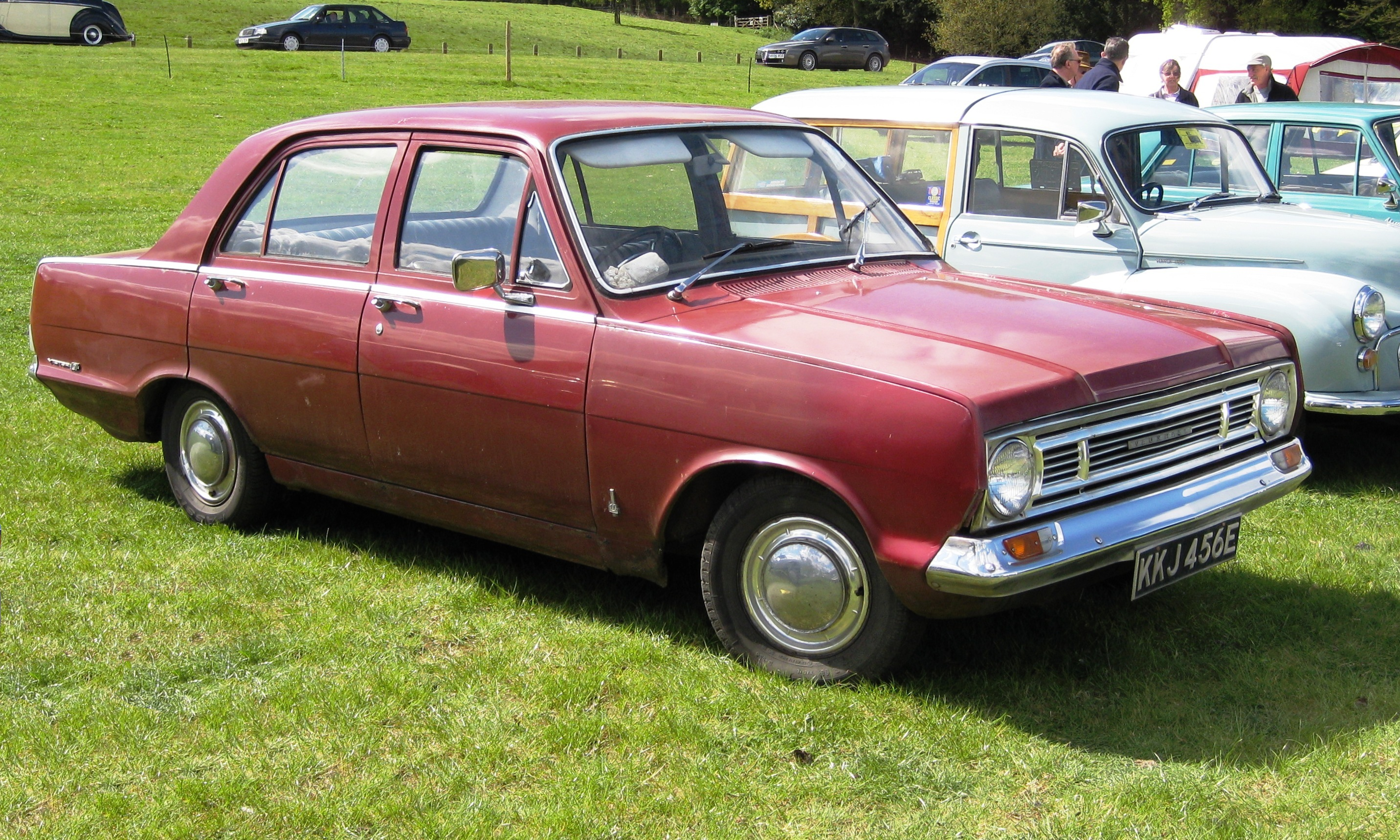 Vauxhall Victor 101 / FC 1600 sedan near Biggleswade